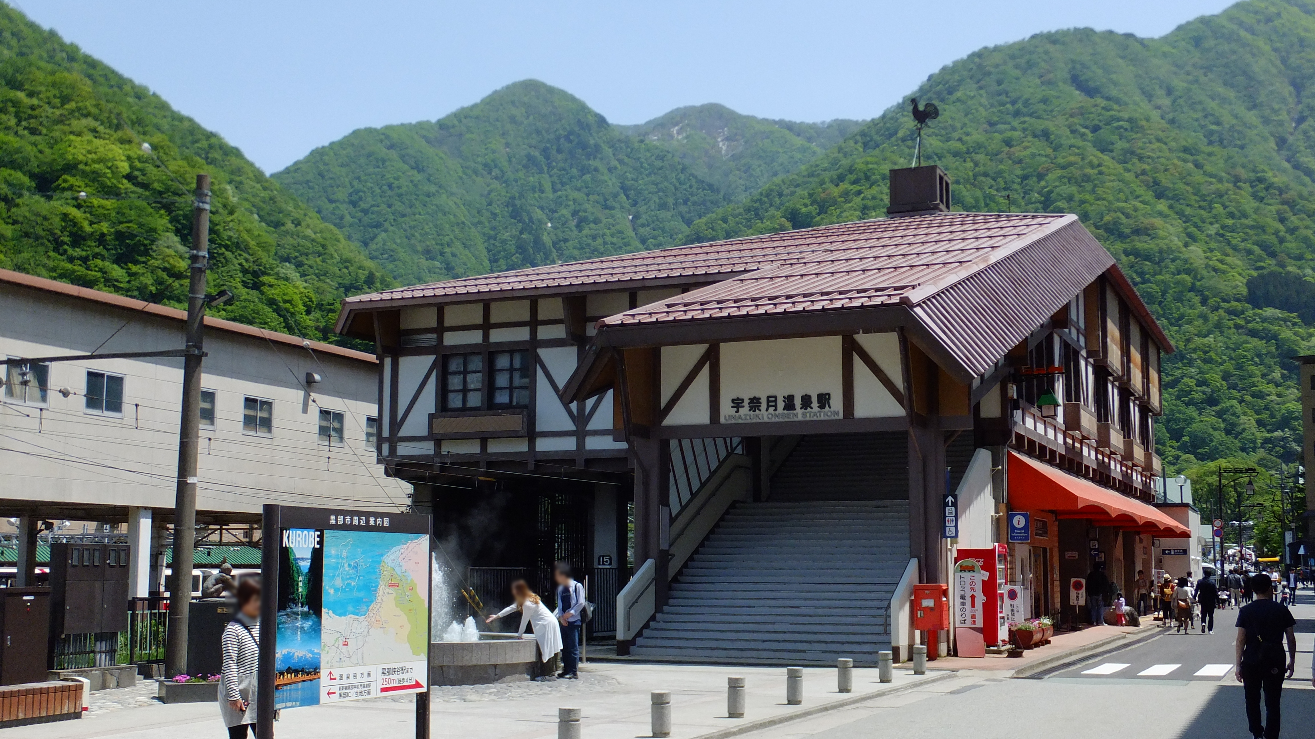 Unazuki Onsen Station operated by Toyama Chiho Railway in Kurobe City, Japan